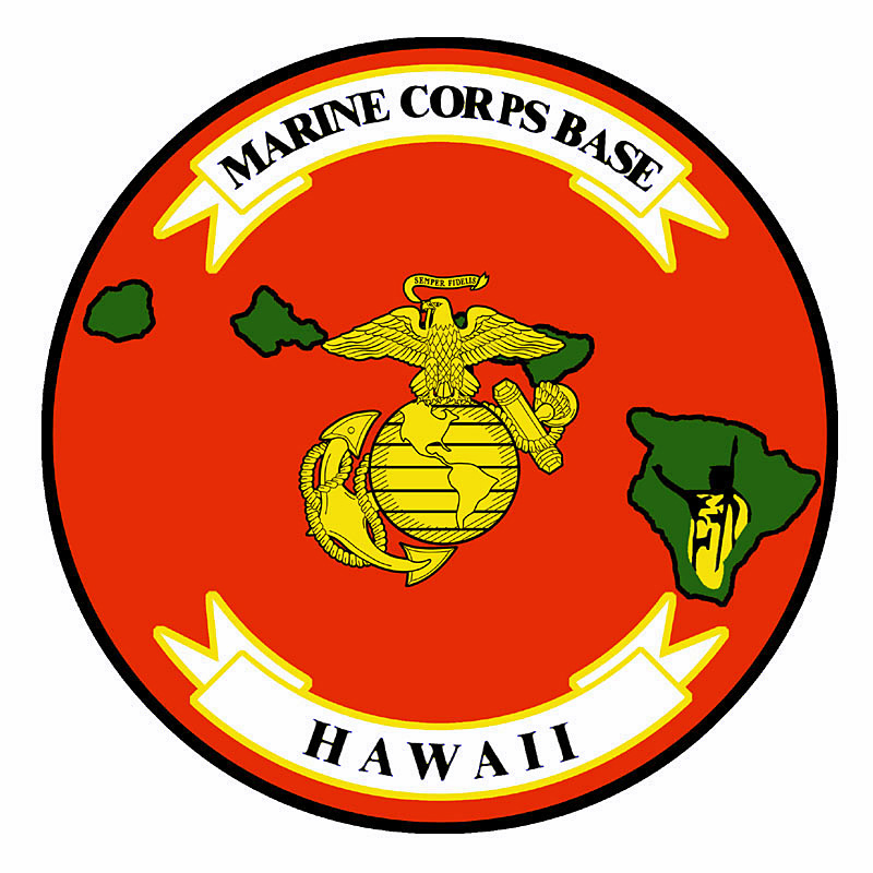 From the Department of Defense image search website. Picture comes up if you search for Marine logo ID: DMSD0512575 Service Depicted: Marines Official logo Marine Corps Base Hawaii. Location: MCB HAWAII, HAWAII (HI) UNITED STATES OF AMERICA (USA) Date Shot: 1 Jan 2005